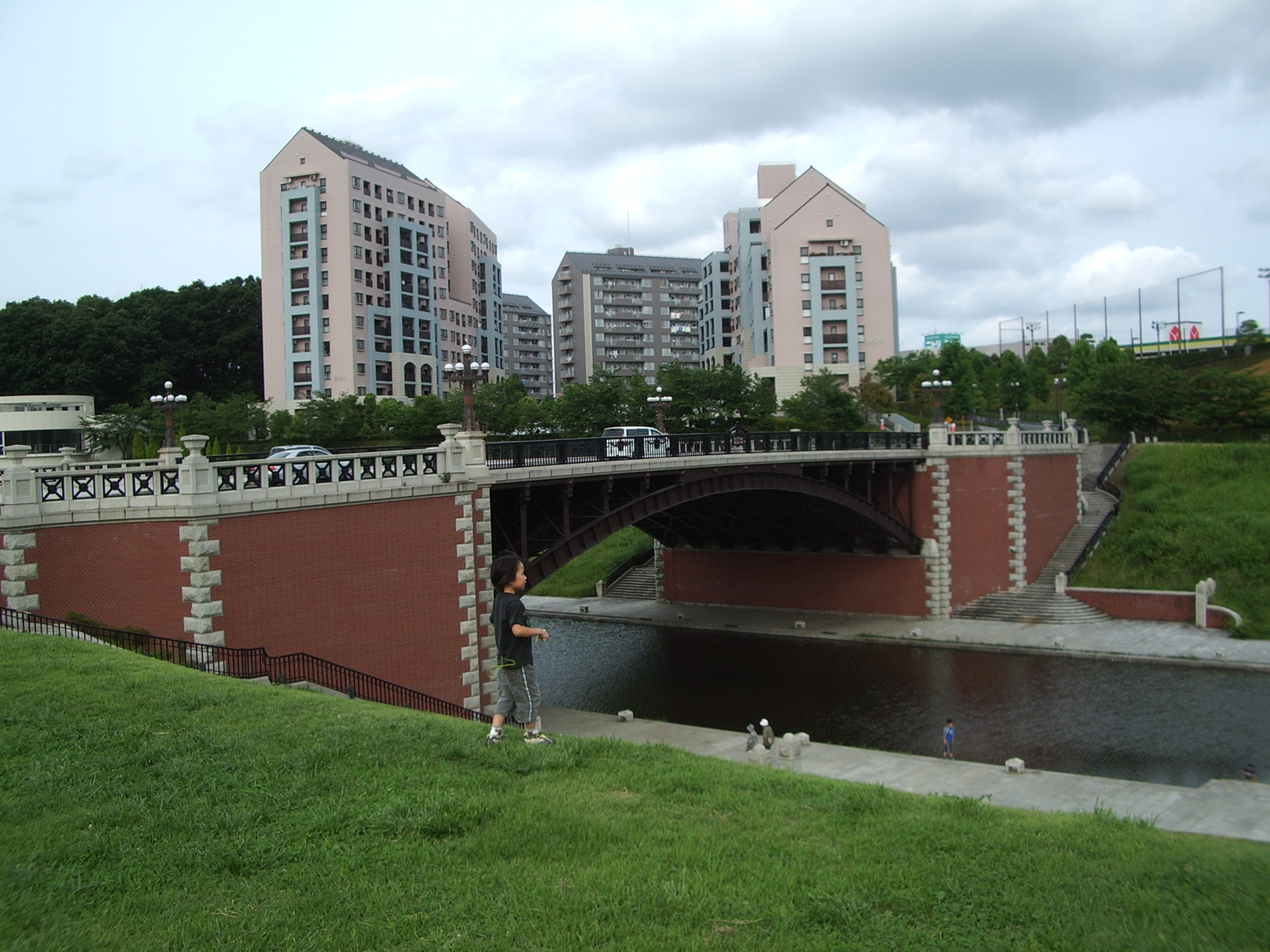 Nagaike mitsuke bashi, Hachioji, Tokyo